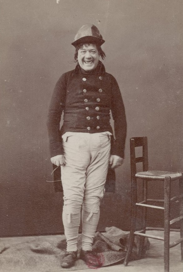 French comic actor Joseph Kelm (Joseph Kahemm, 1807-1882), photograph by the Nadar worshop